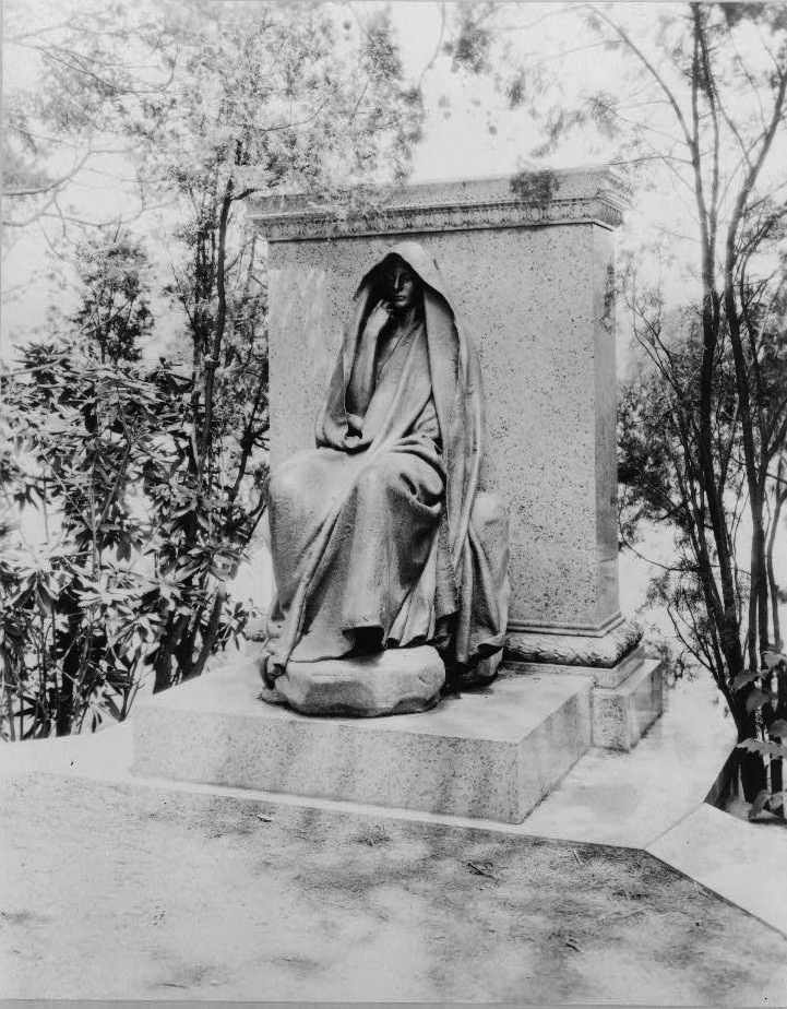 Marian (Clover) Adams Monument in Rock Creek Cemetery, Washington, D.C.